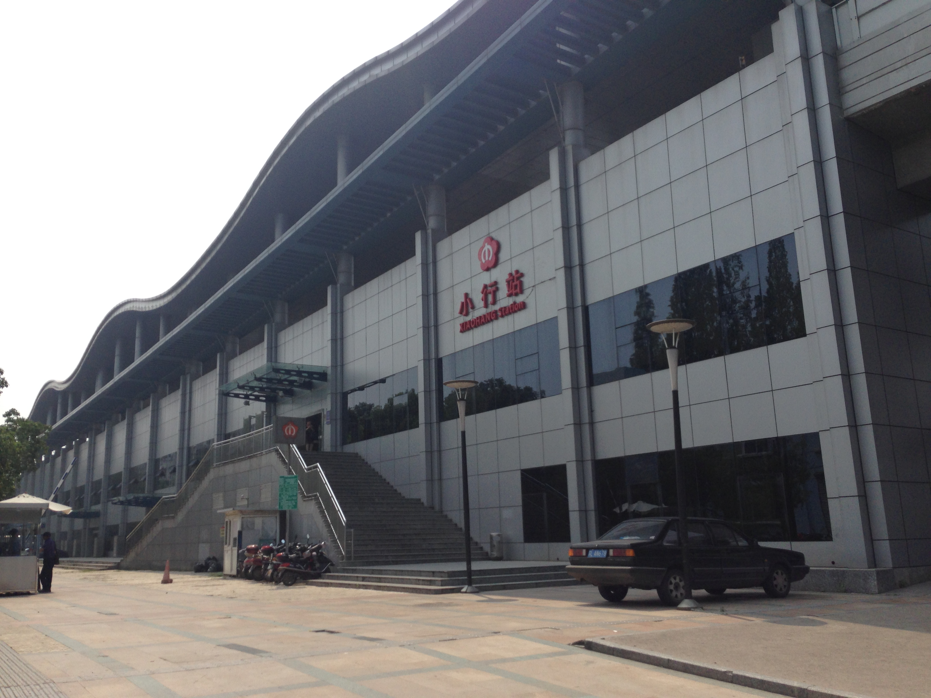 Xiaohang Station of Line 10, Nanjing Metro